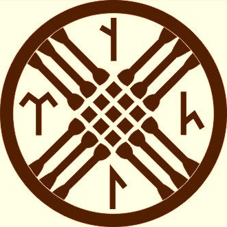 A symbol used by Tengrists, representing the structure of the universe, god Tengri, the roof opening of a yurt, and a shaman's drum.